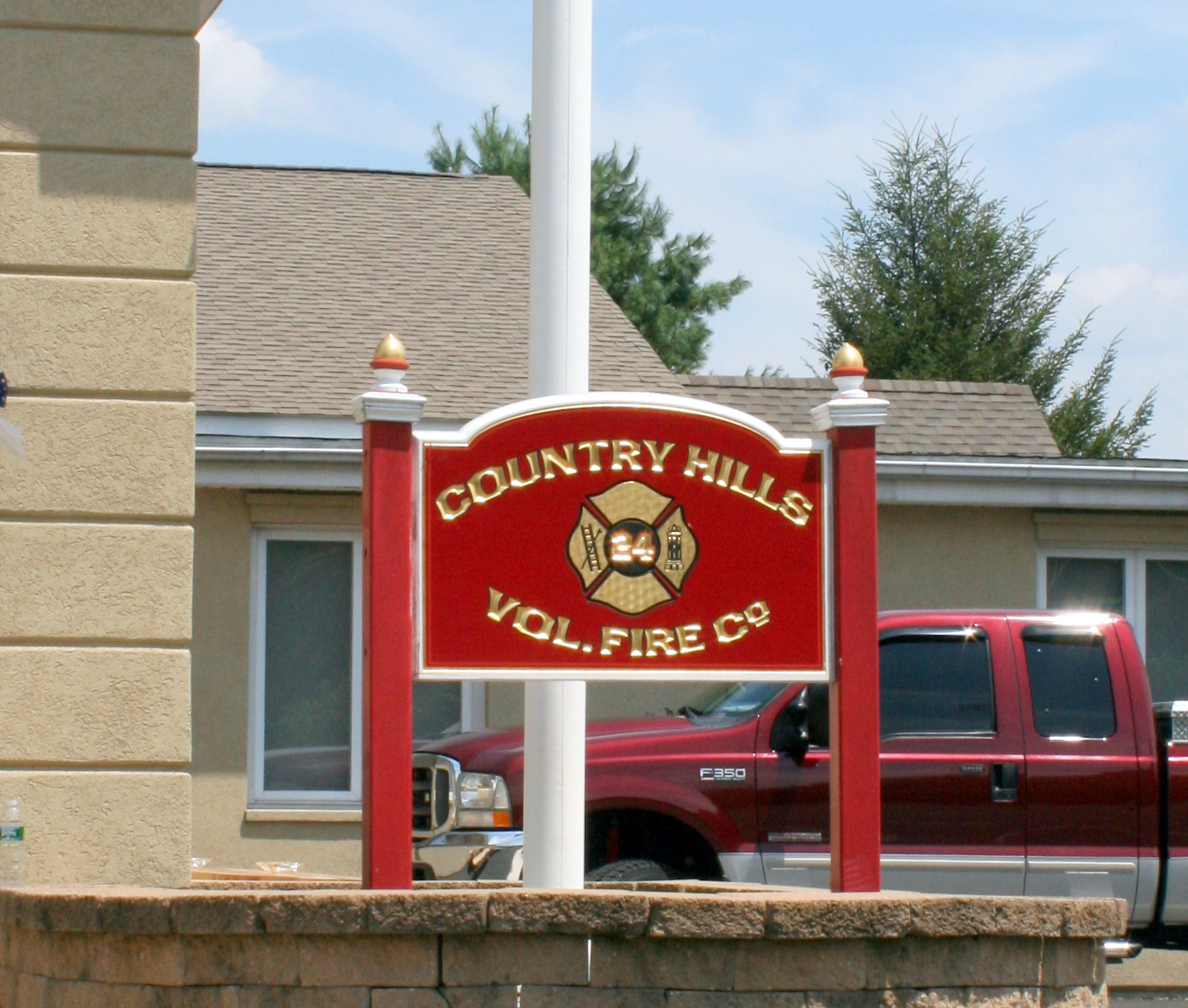 Country Hills Fire Department in Bridgewater Township, New Jersey